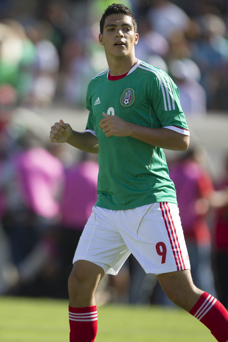 Raúl Jiménez during the second match of the 2013 CONCACAF Gold Cup between Mexico and Panama at the Rose Bowl, Pasadena, Calif., on 7 July 2013. Panama would hold on to win this match 2-1. (© Fernando J Tirado 2013)